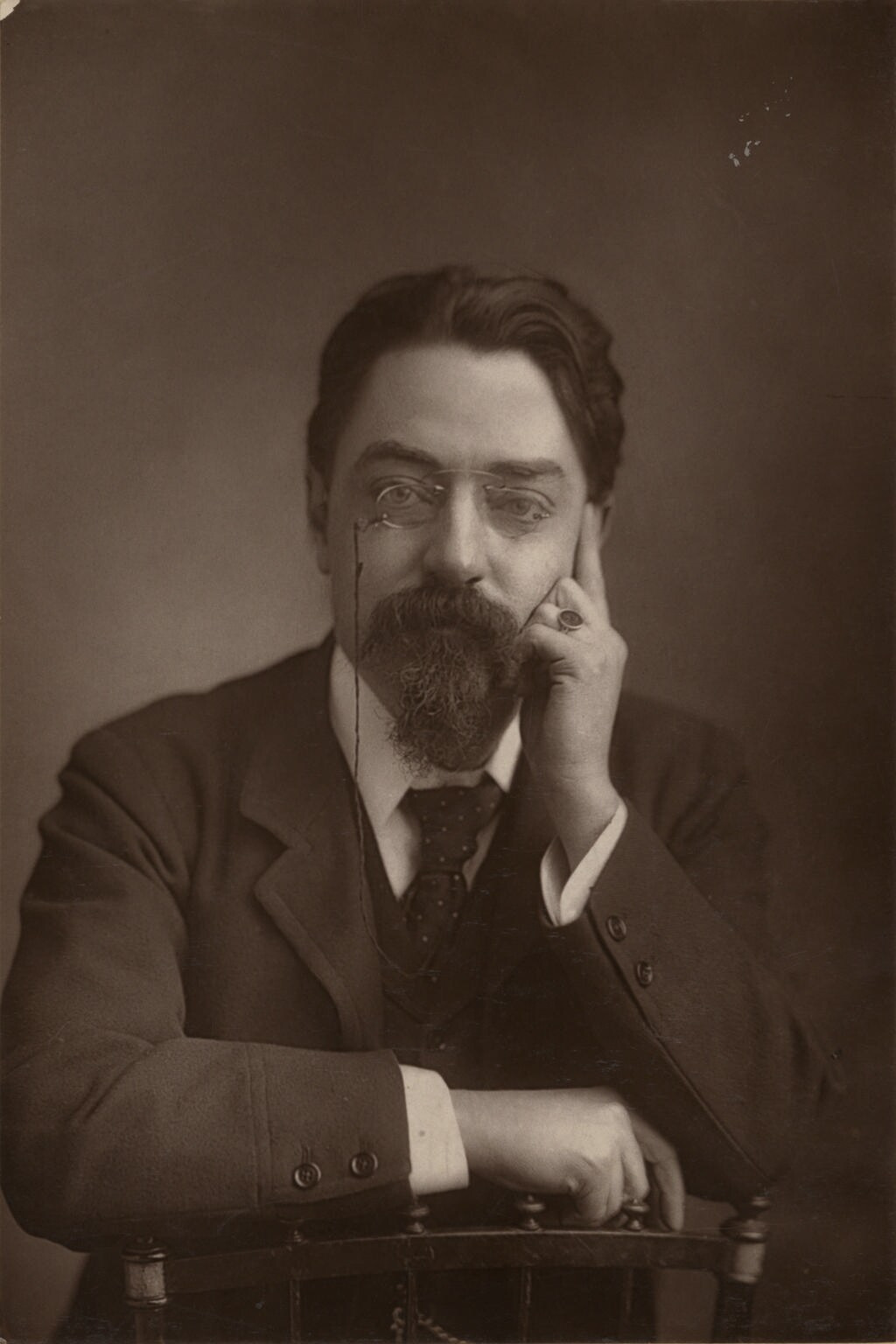 Photograph of Sidney James Webb, Baron Passfield by W. & D. Downey, published by Cassell & Company, Ltd in 1893.